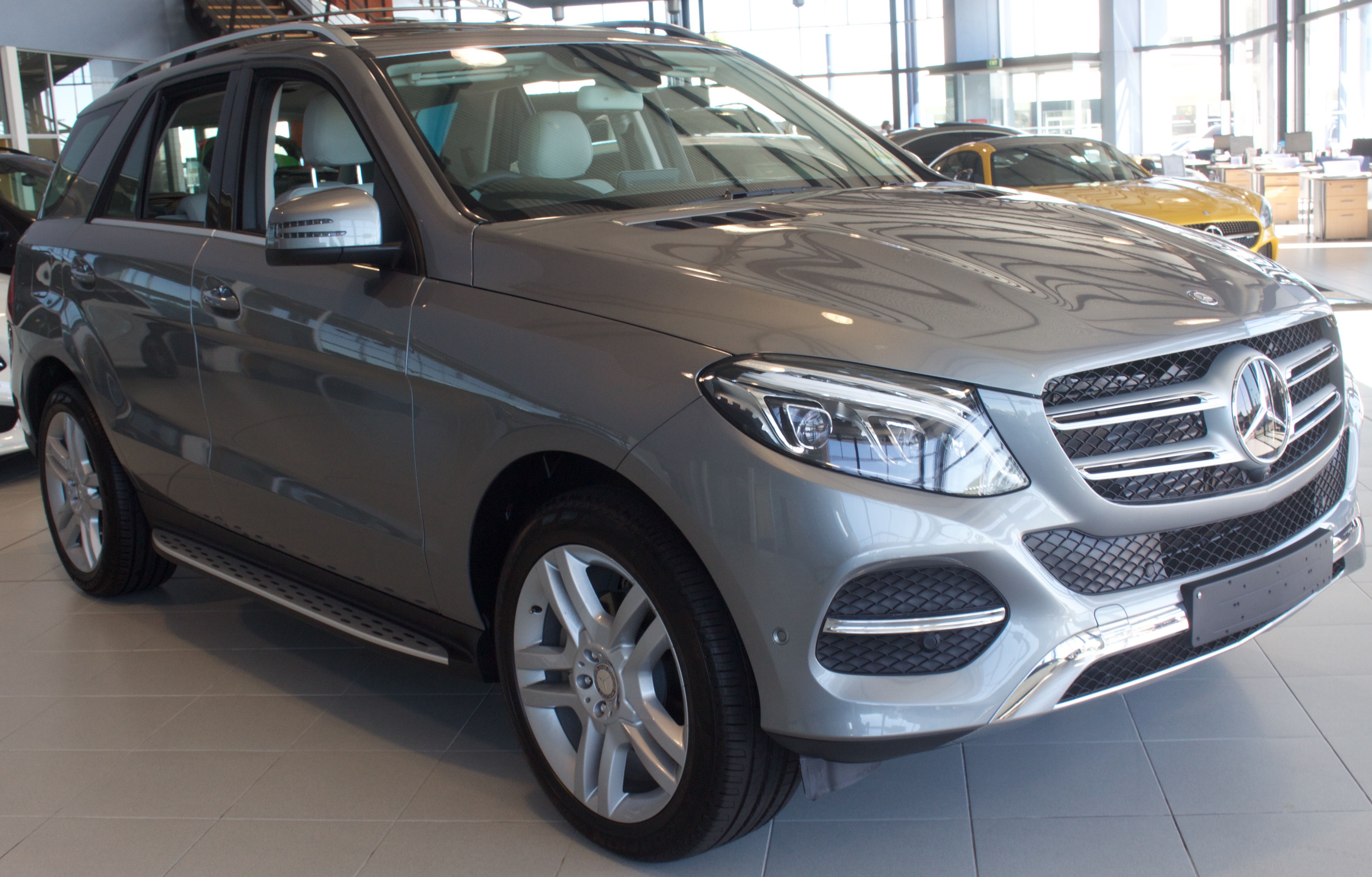 2016 Mercedes-Benz GLE 350 d (W 166) wagon. Photographed at Diesel Motors, St James, Western Australia, Australia.